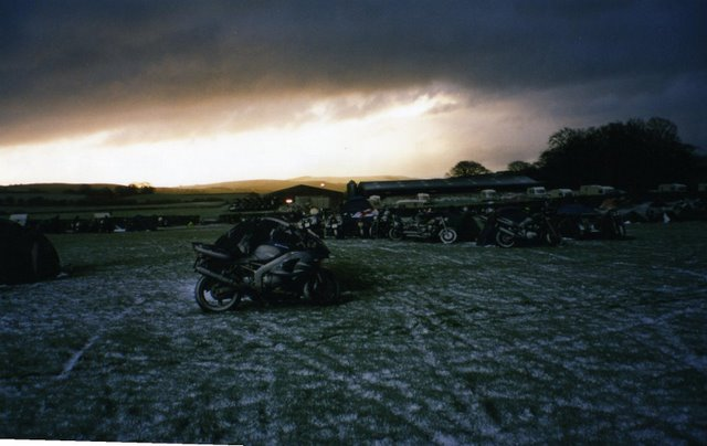 Night falls at the 2005 Dragon Rally